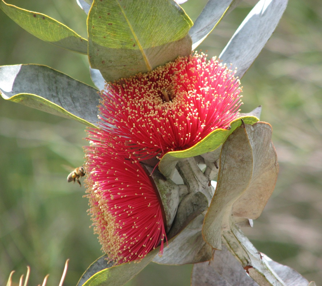 Eucalyptus macrocarpa, Maranoa Gardens, Balwyn, Victoria, Australia